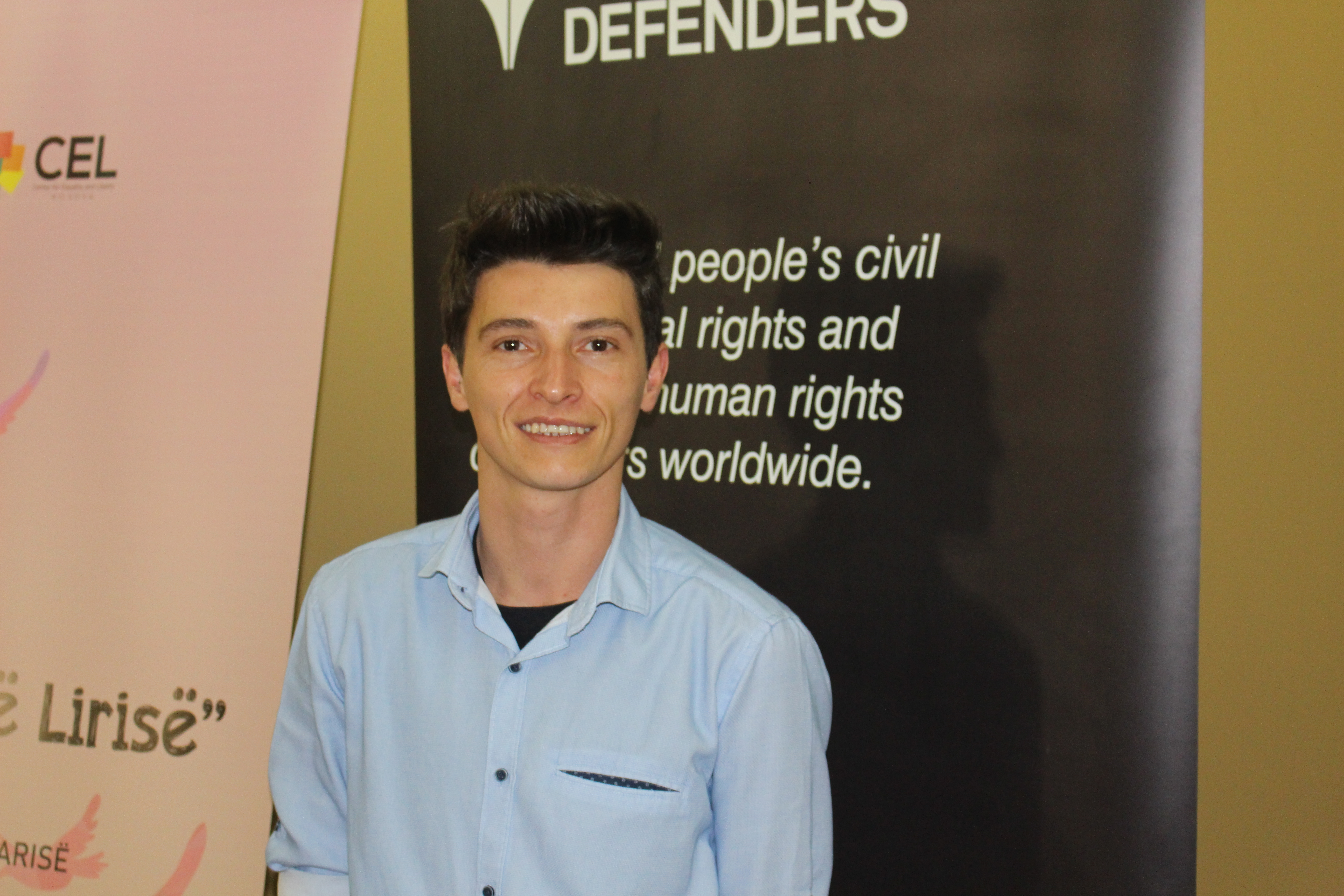 Blert Morina, a transgender activist from Kosovo.